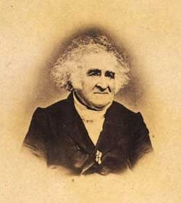 Mendel Levin Nathanson (1780-1868), Danish merchant, editor, and writers